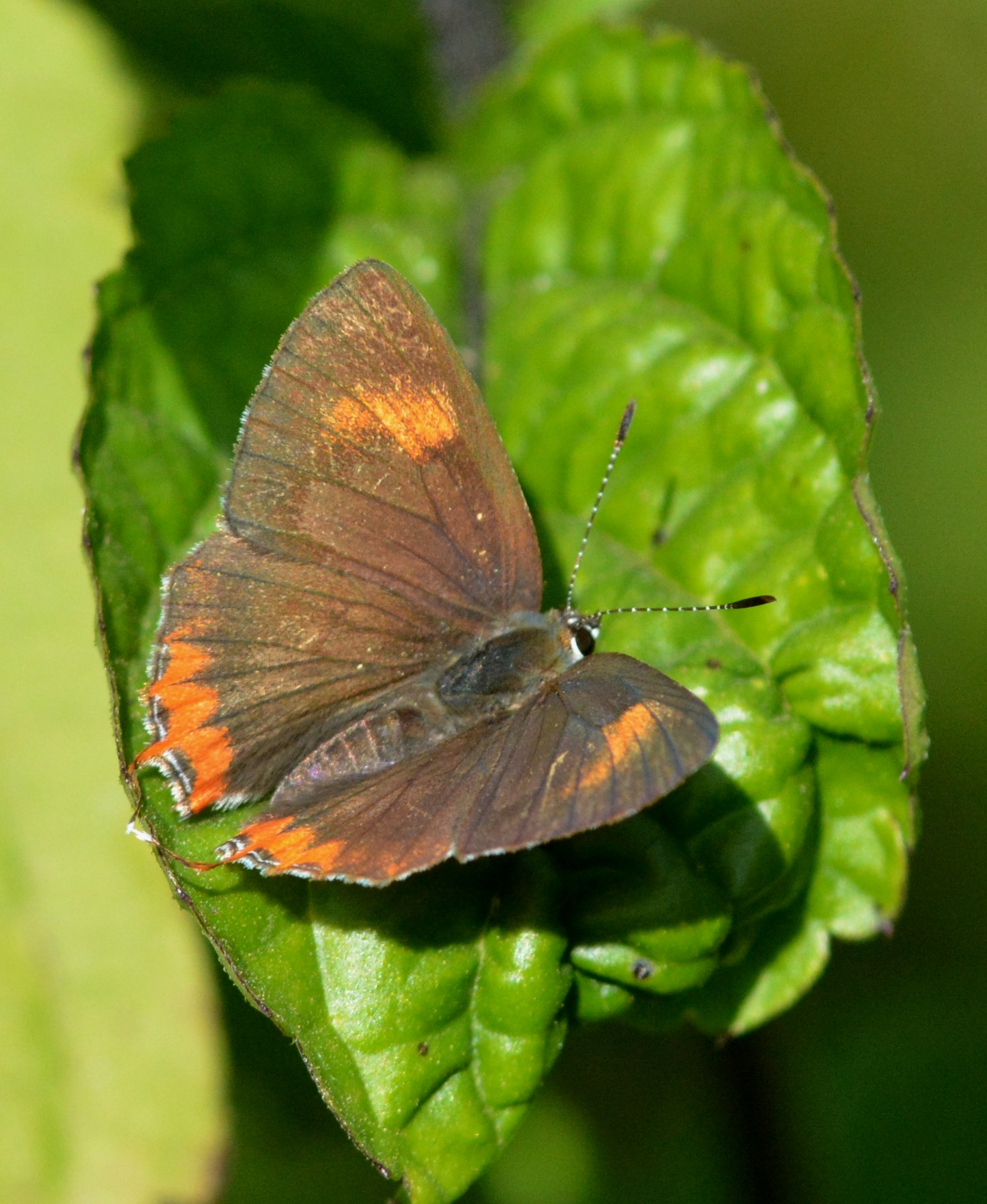 Purple Sapphire Heliophorus epicles. Clicked by Dr. Raju Kasambe near Kwatha, Yangoupokpi-Lokchao Wildlife Sanctuary, Manipur.